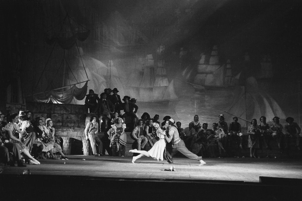 “Scene from Vladimir Yurovsky's ballet Scarlet Sails”. Olga Lepeshinskaya as Assol and Vladimir Preobrazhensky as Arthur Grey in a scene from Vladimir Yurovsky's ballet Scarlet Sails staged at the State Academic Bolshoi Theater of the USSR, December 5,1943.